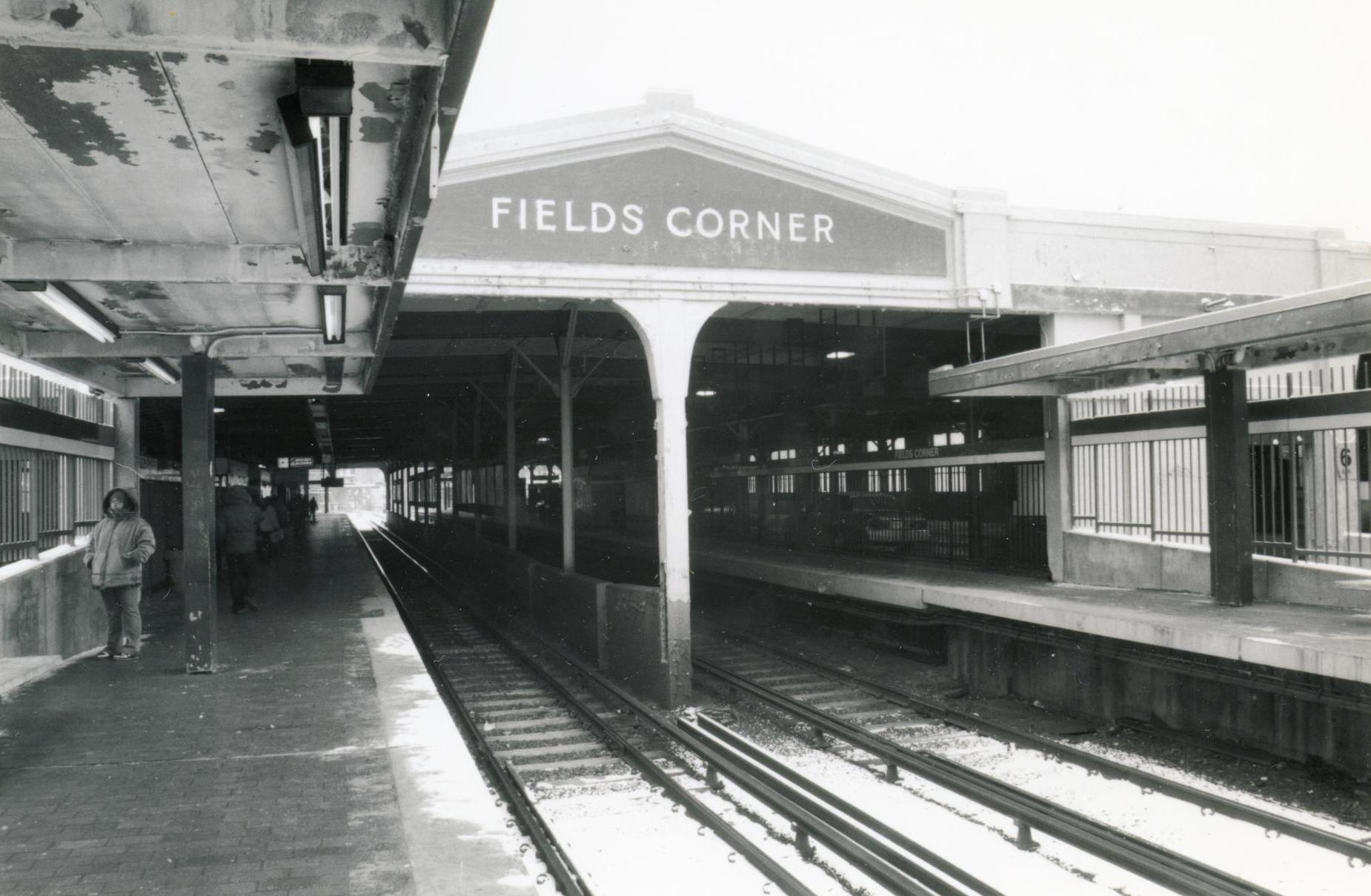 West end of the 1927-built Fields Corner station in January 2004, shortly before it was demolished and replaced with a modern station